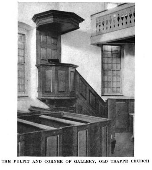 Interior of the Old Trappe Church founded by Henry Muhlenberg in 1712 as it appeared circa 1919